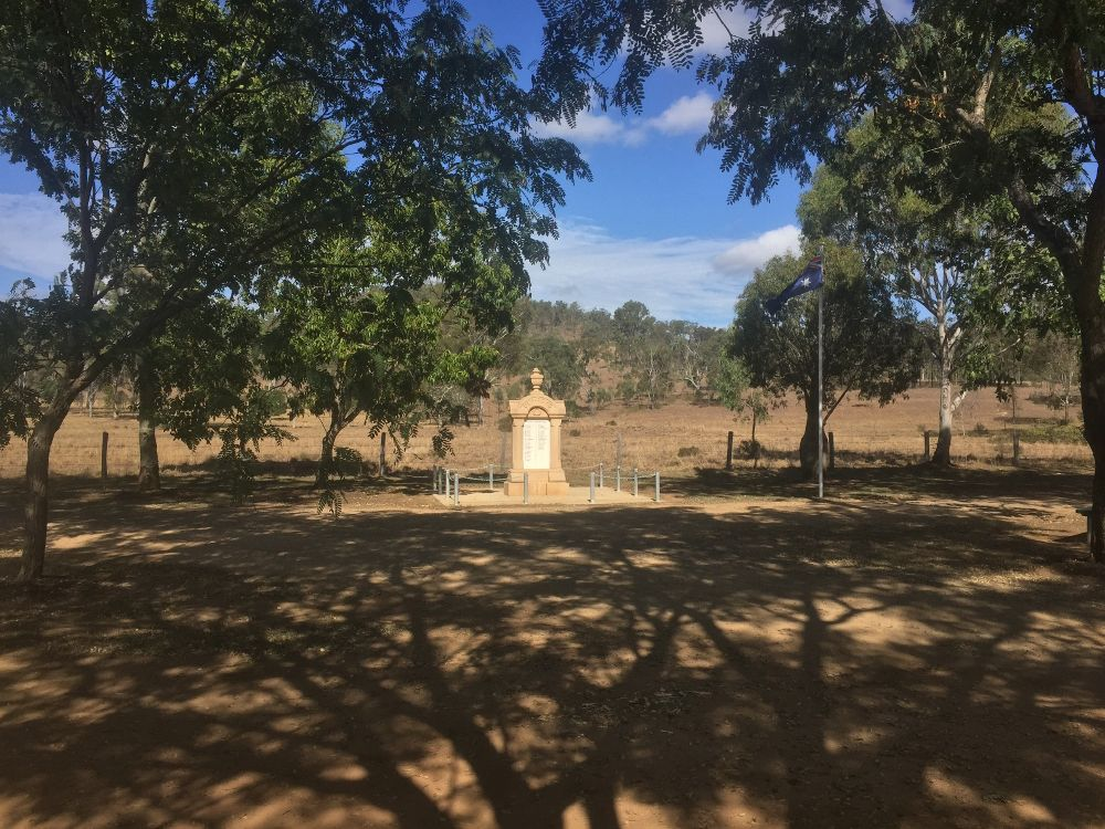 Colinton War Memorial, context, from NE. (EHP, 2016)